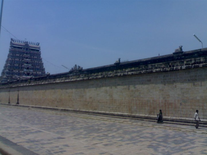 Eastern tower & Prakaaram of Chidambaram Nataraja Temple